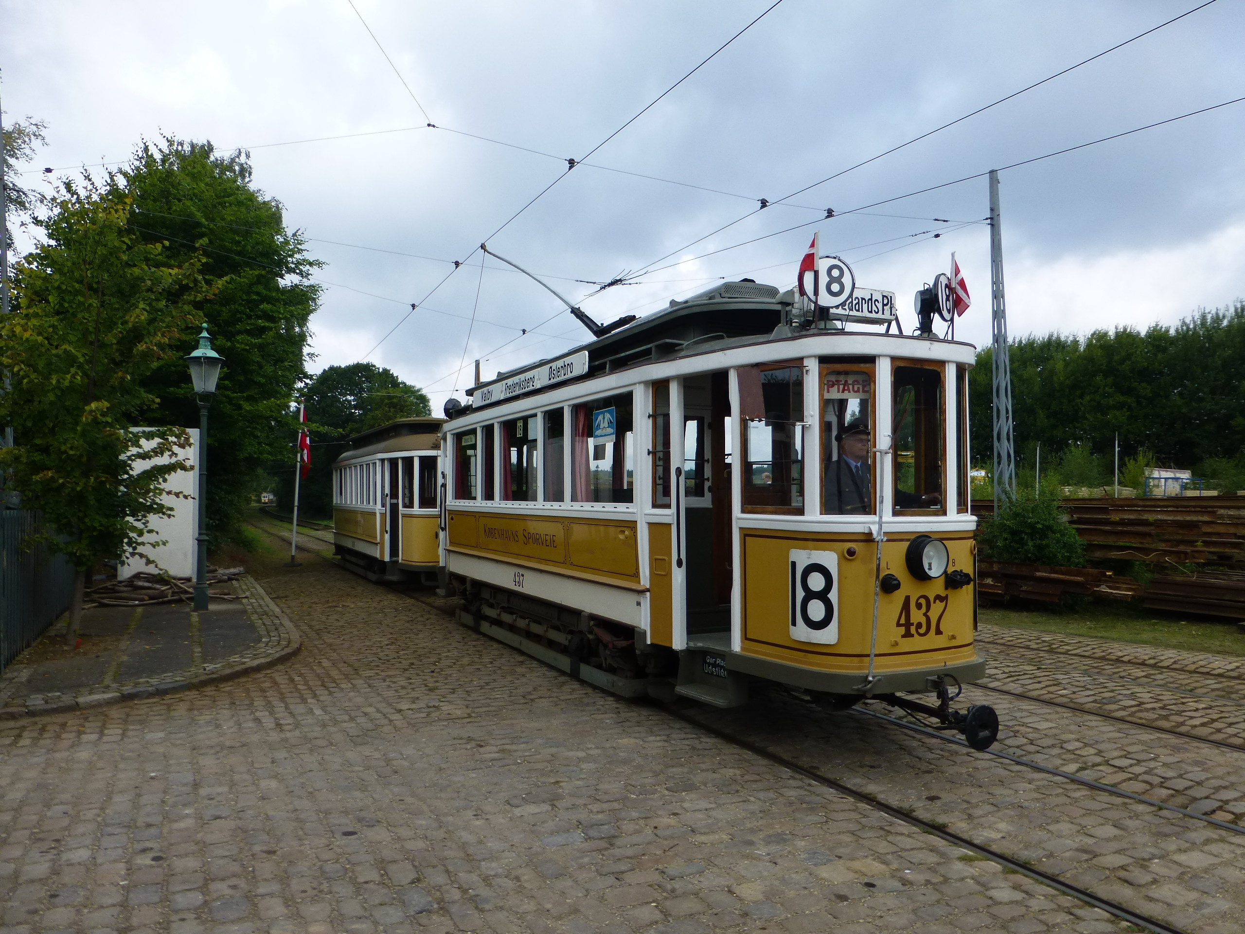 Old trams from Copenhagen KS 437+1460 at Sporvejsmuseet Skjoldenæsholm in Denmark.